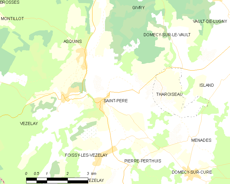 Map of French municipality Saint-Père